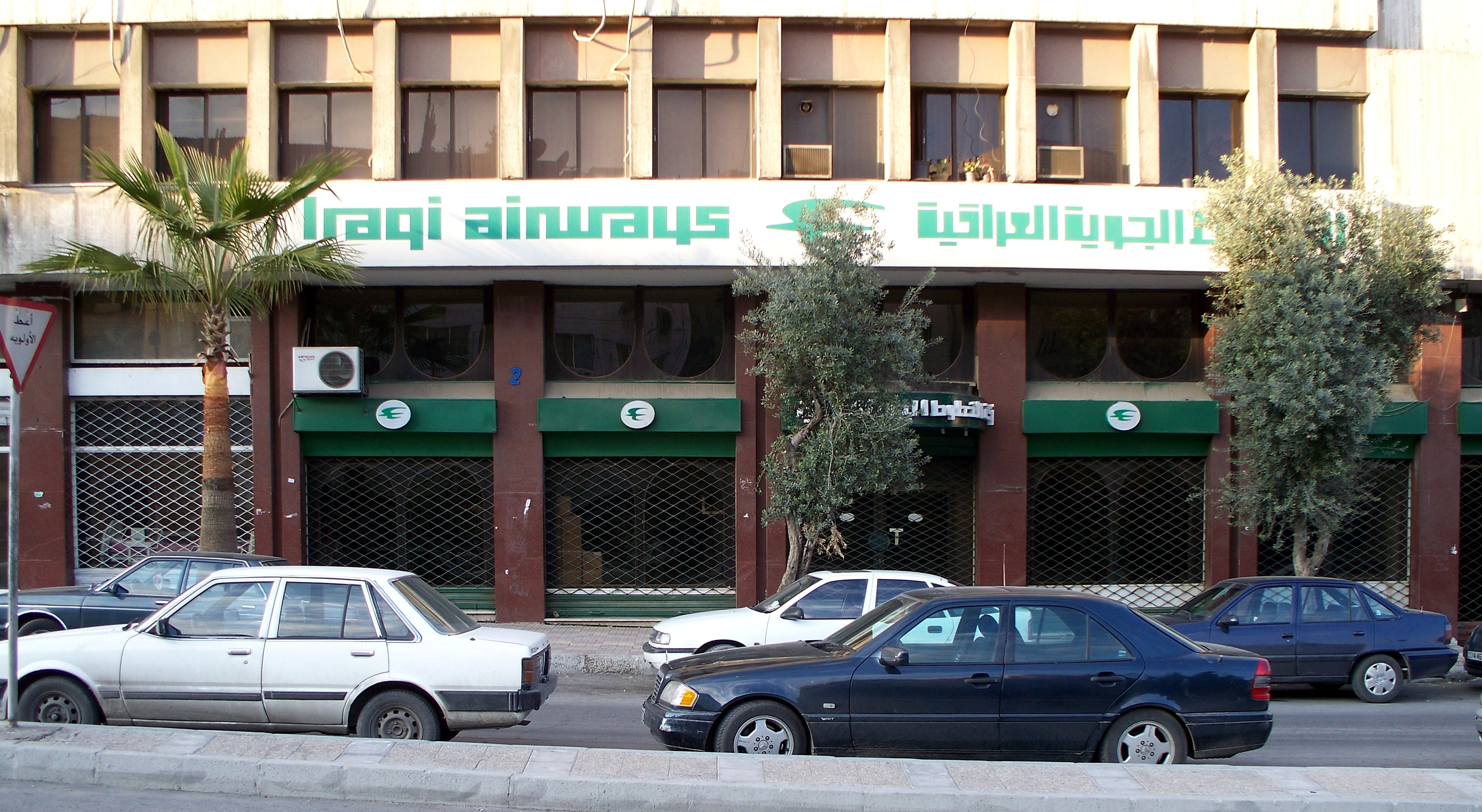 The abandoned Iraqi Airways office (2009-12) in Amman, Jordan.